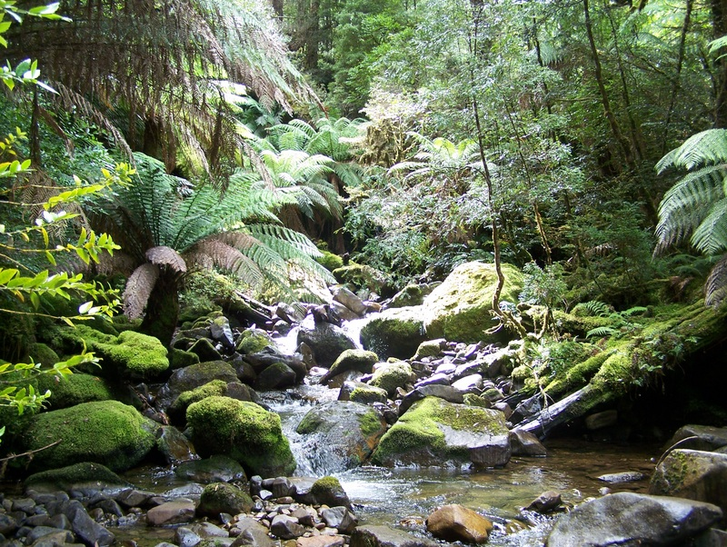 Callidendrous forest at streams edge above Growling Swallet in the Upper Florentine Valley, photo taken February 2012.